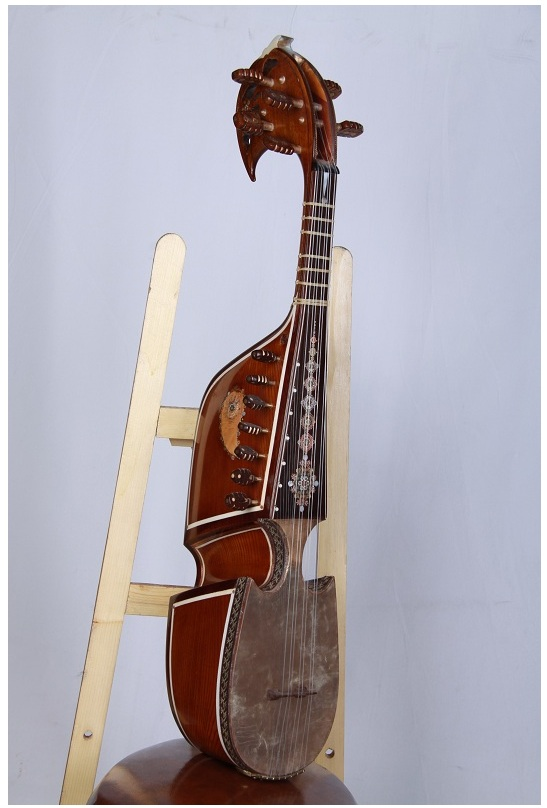 Iranian Robab